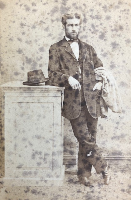 Raessens88